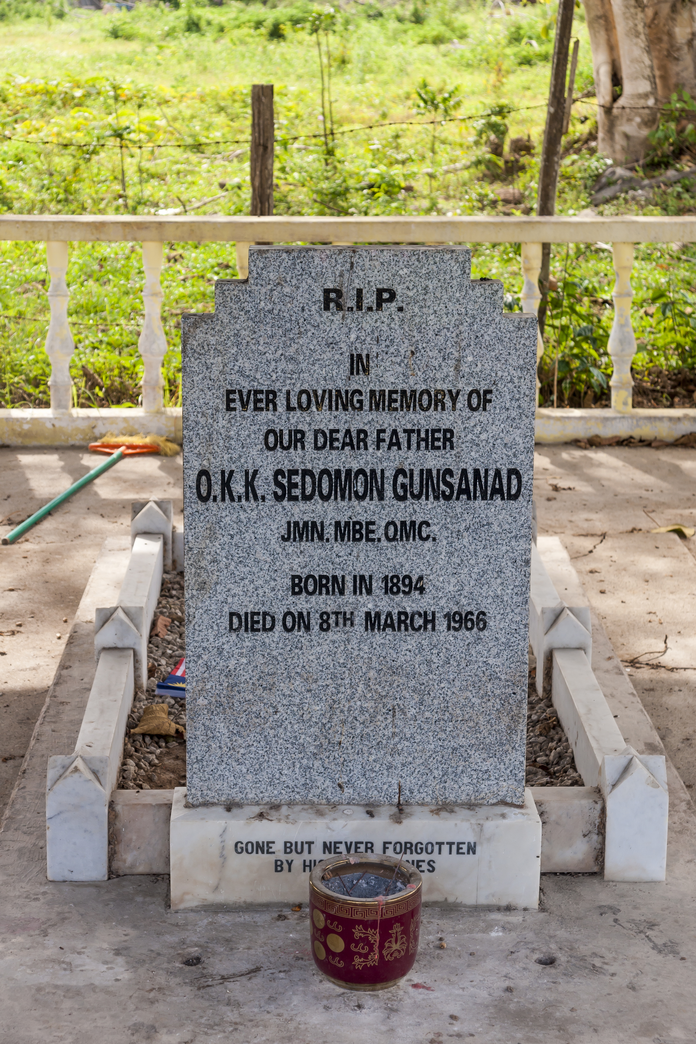 Bingkor, Sabah: Private burial ground at Rumah Besar Sedomon; Tomb of OKK Sedomon